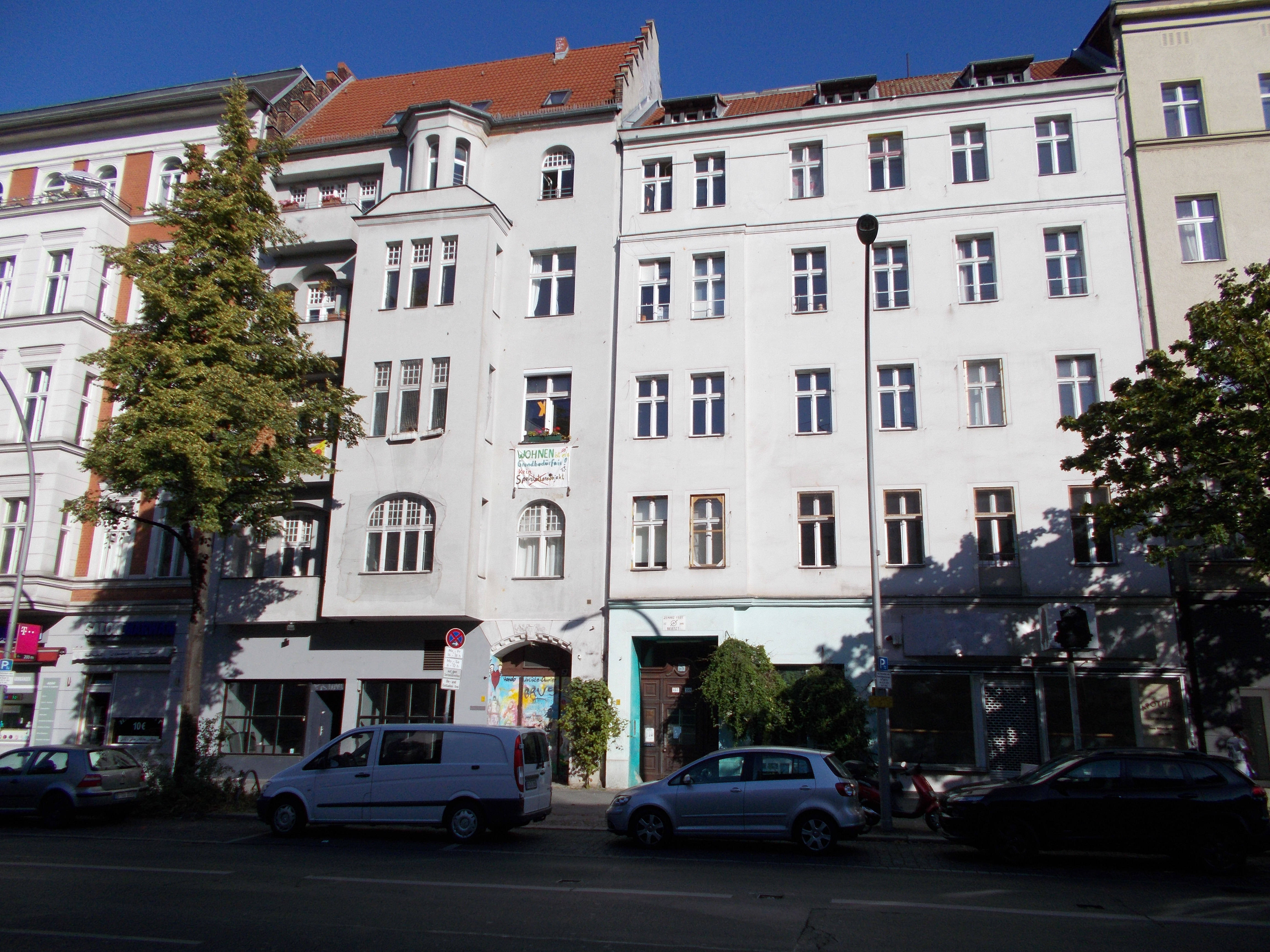 Berlin, Potsdamer Strasse 157 and 159, 1981 squatted houses.